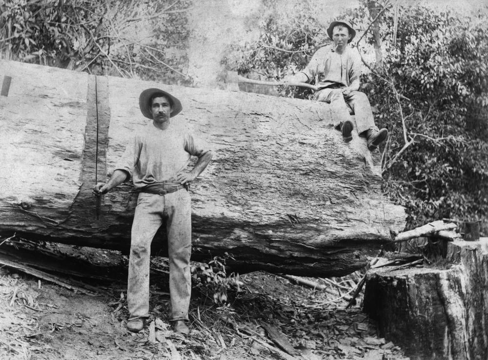 Gossner brothers logging by the Kolan River, near Bundaberg. These forest timber workers were the grandsons of Pastor Gossner, a German Missionary. (Description supplied with photograph).